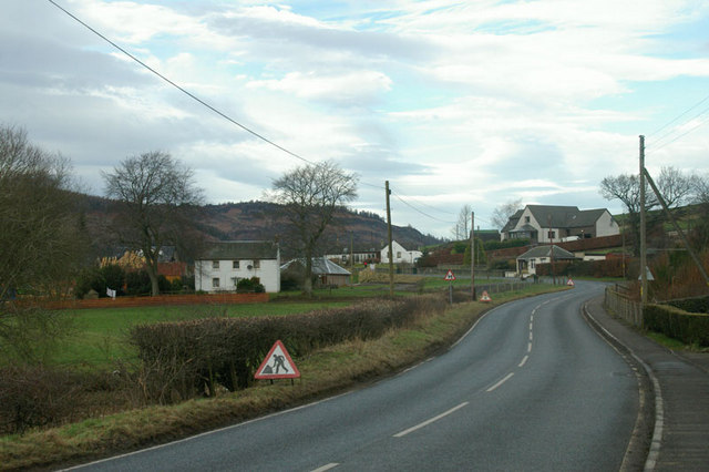 Waterloo facing North From Meikle Obney Junction